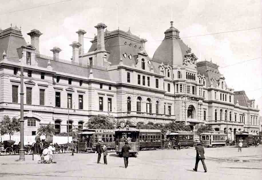 Trams in front of Constitución railway station, Buenos Aires.